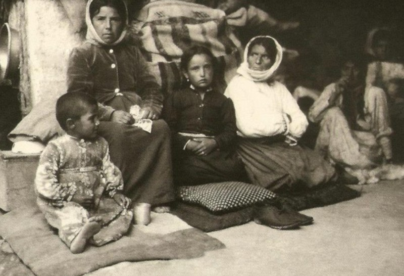 Turkish muhacirs (refugees) in Anatolia during the 1923 Turkish-Greek population exchange.